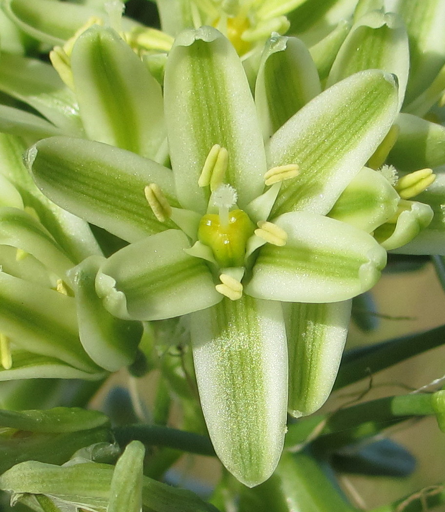 Albuca bracteata, Pemba, Mozambique